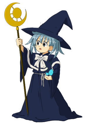 Artists impression of the tooth fairy. Well, artists impression of how wikipi-tan might look as the tooth fairy.